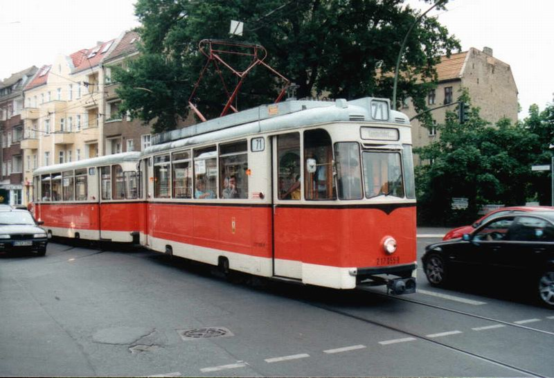 Berlin Tramway, called "Reko-Wagen" or "TE59", built 1961, in Berlin-Niederschönhausen between spring 1990 and May 1993